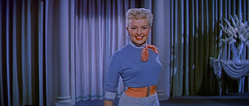 Cropped screenshot of Betty Grable in the trailer for the film How to Marry a Millionaire